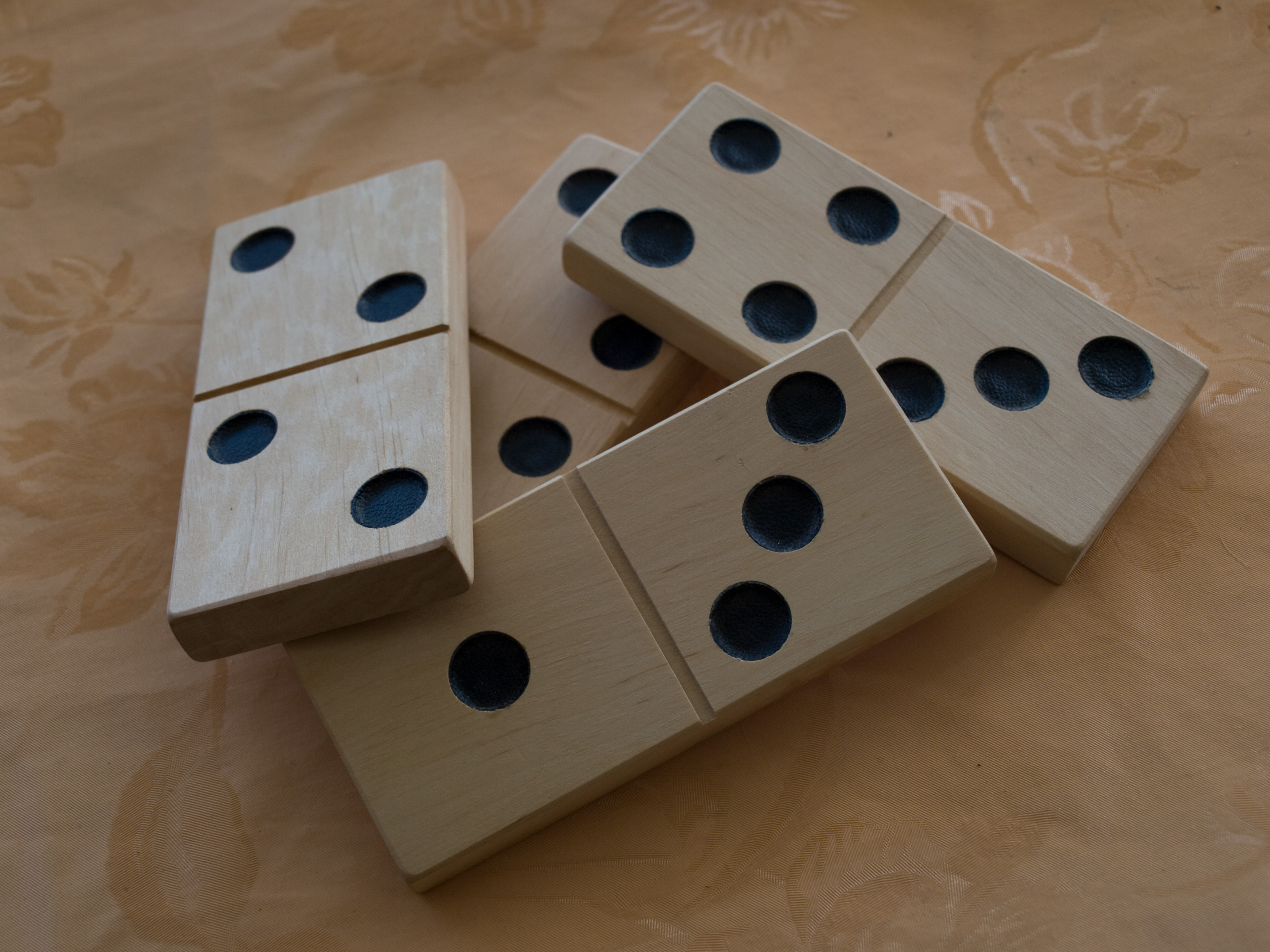 Domino, Czech guide dog school Klikatá, Prague 5